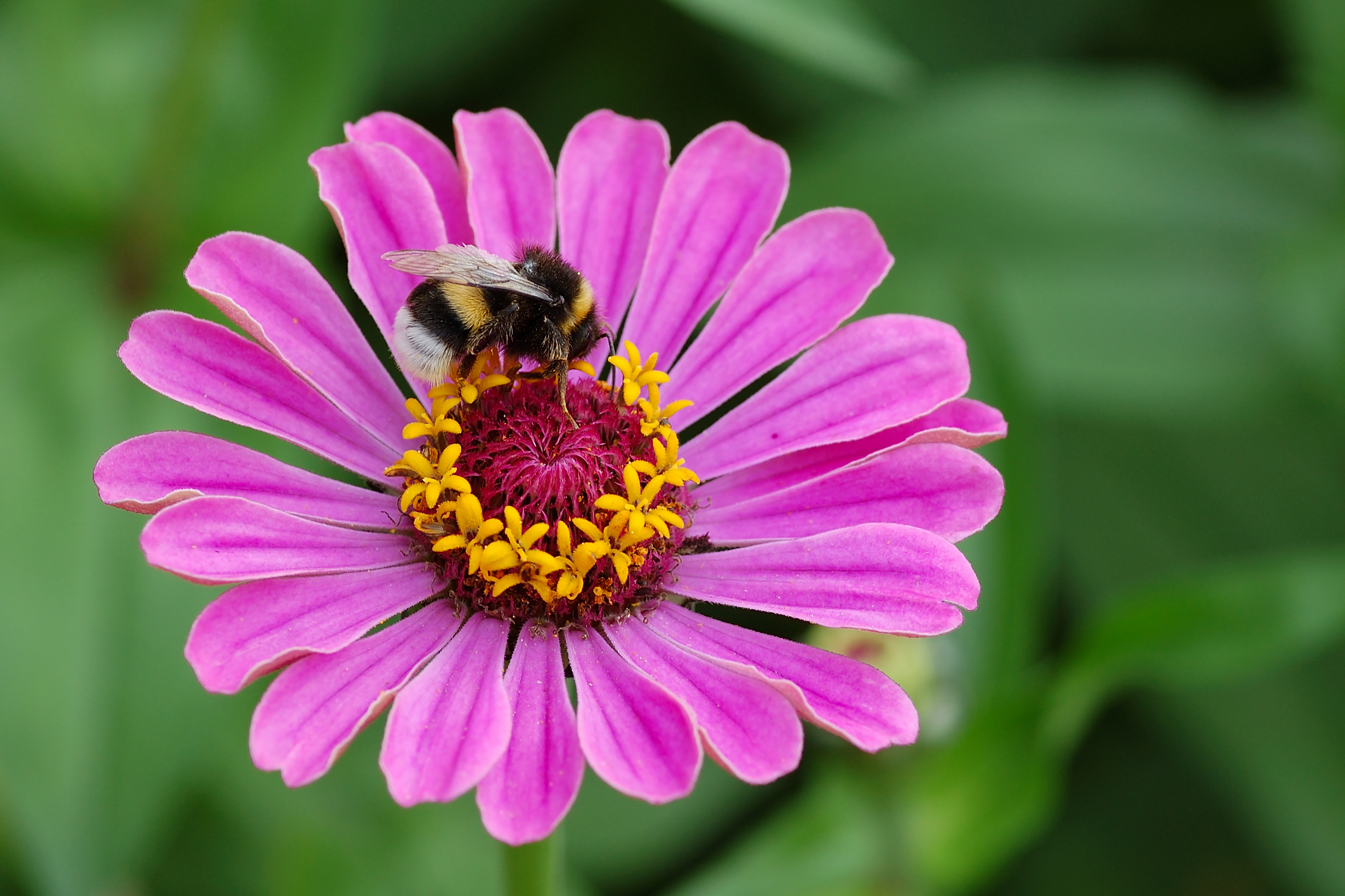 Zinnia (Zinnia elegans) with a buff-tailed bumblebee (Bombus terrestris), Picture was taken in a garden in Épinal, France